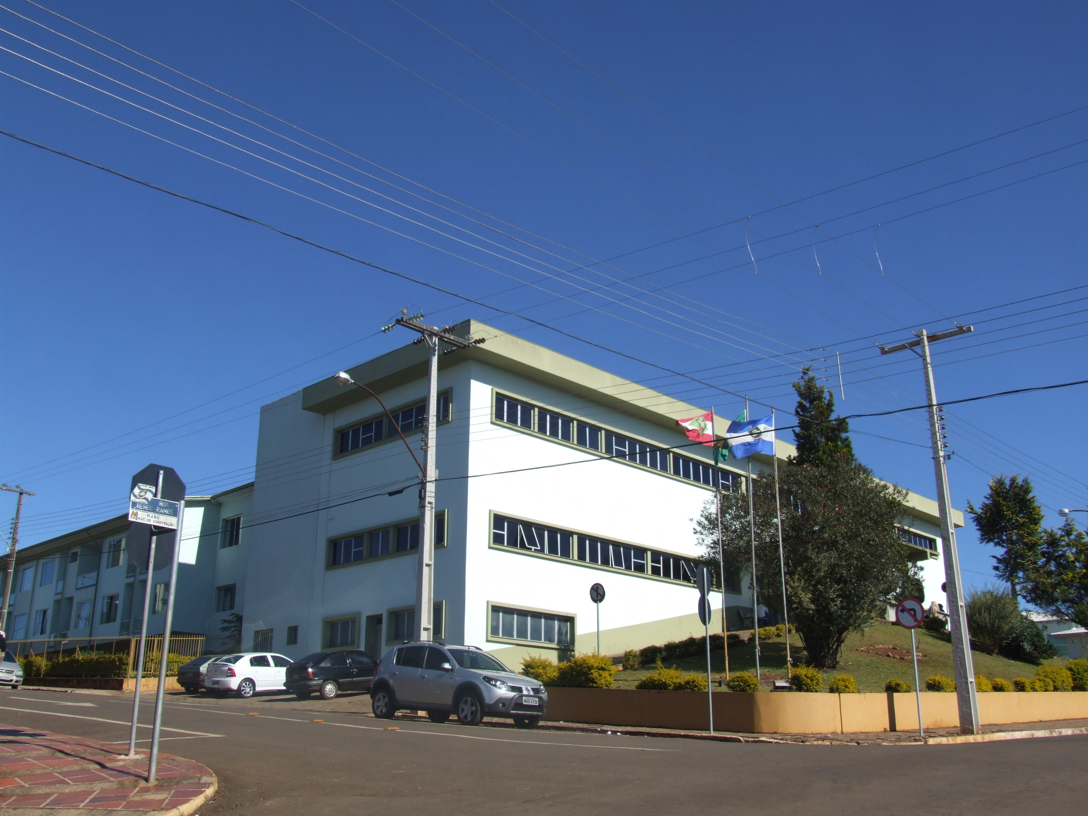 Dr. José Athanázio Hospital Foundation in Campos Novos, Santa Catarina, Brazil